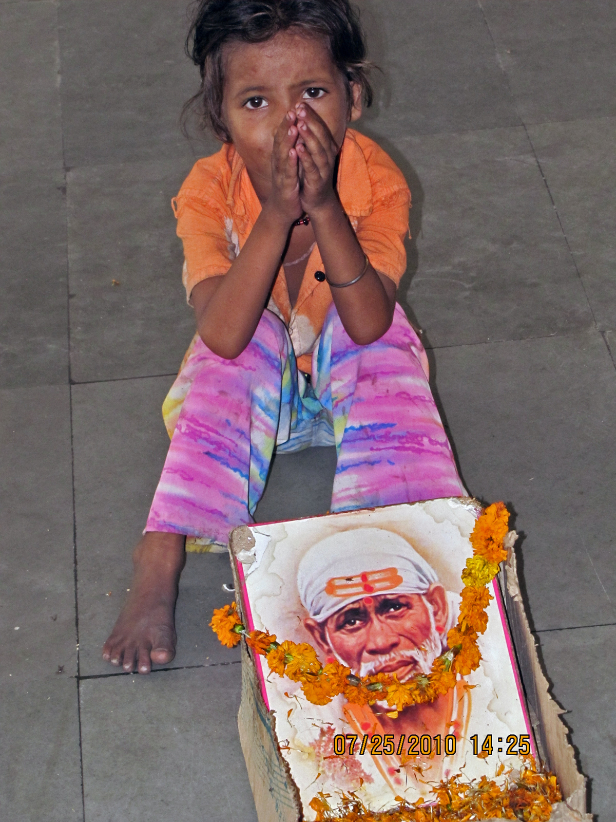 Beggar Girl at one of New Delhi's busy Metro Rail Stations.